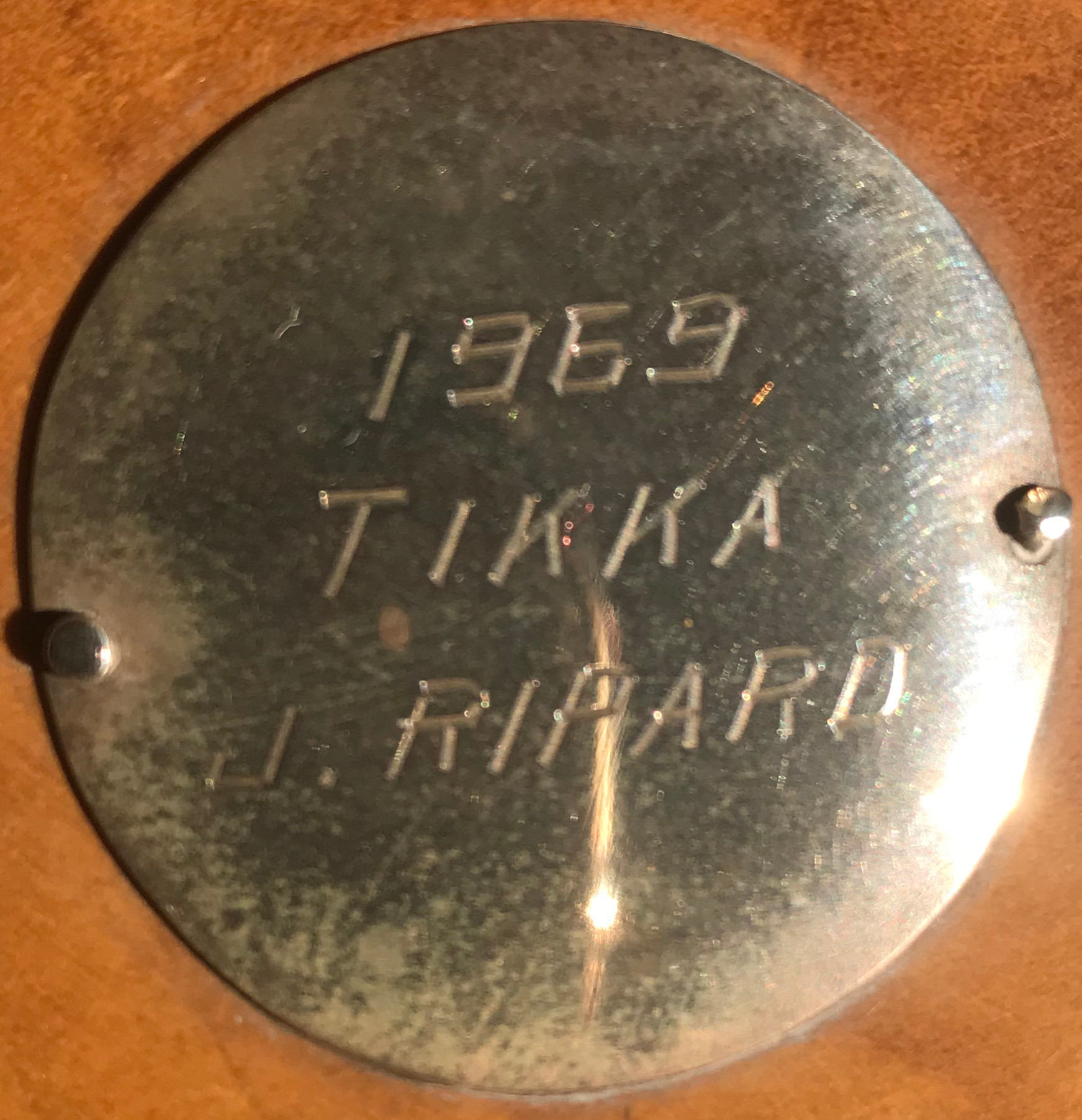 Patch on the Trophy